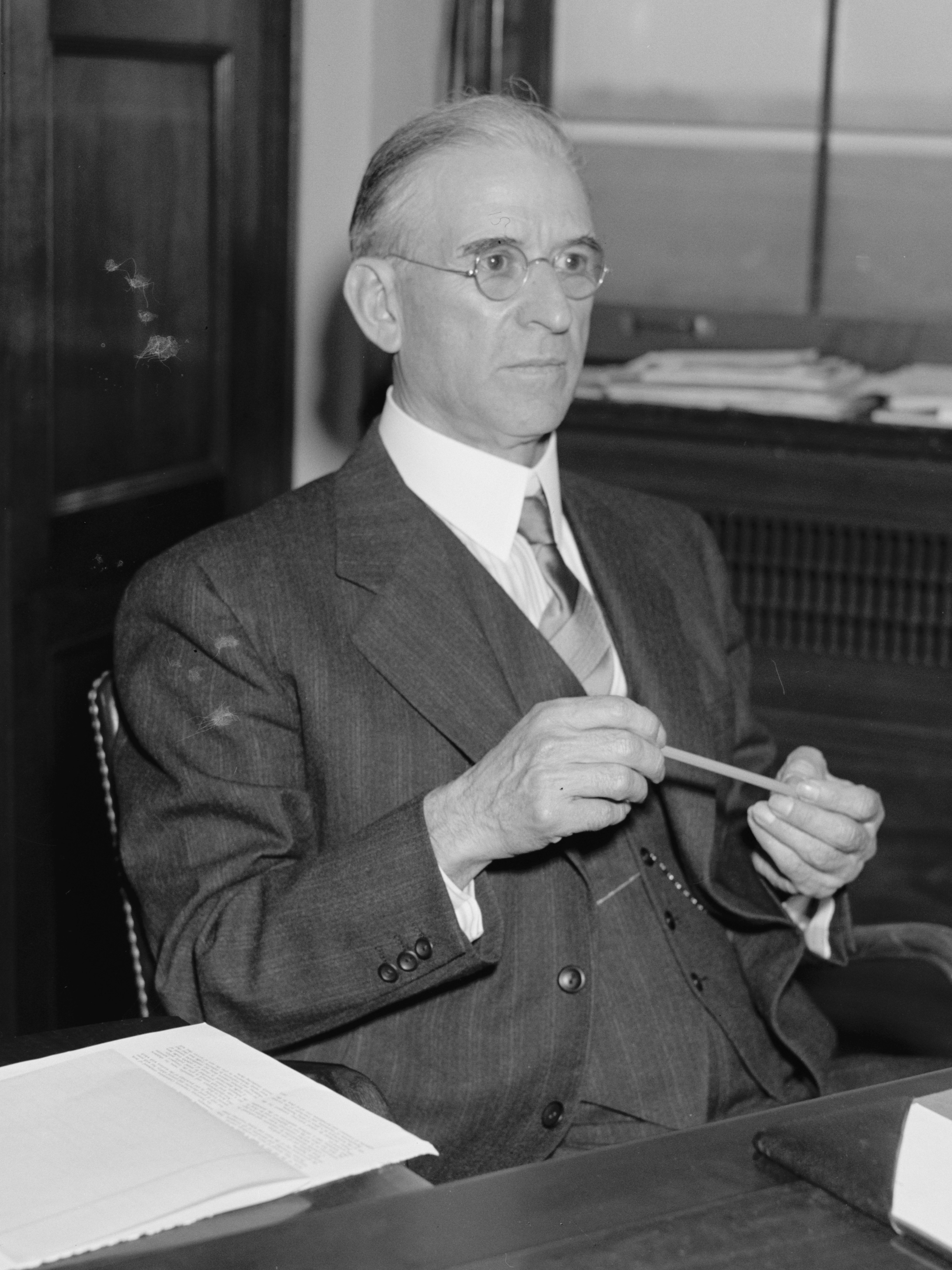 Title: Rep. Clarence F. Lea, Democrat of Calif. Abstract/medium: 1 negative : glass ; 4 x 5 in. or smaller